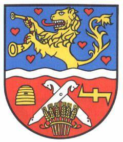 Coat of Arms of Samtgemeinde Wesendorf